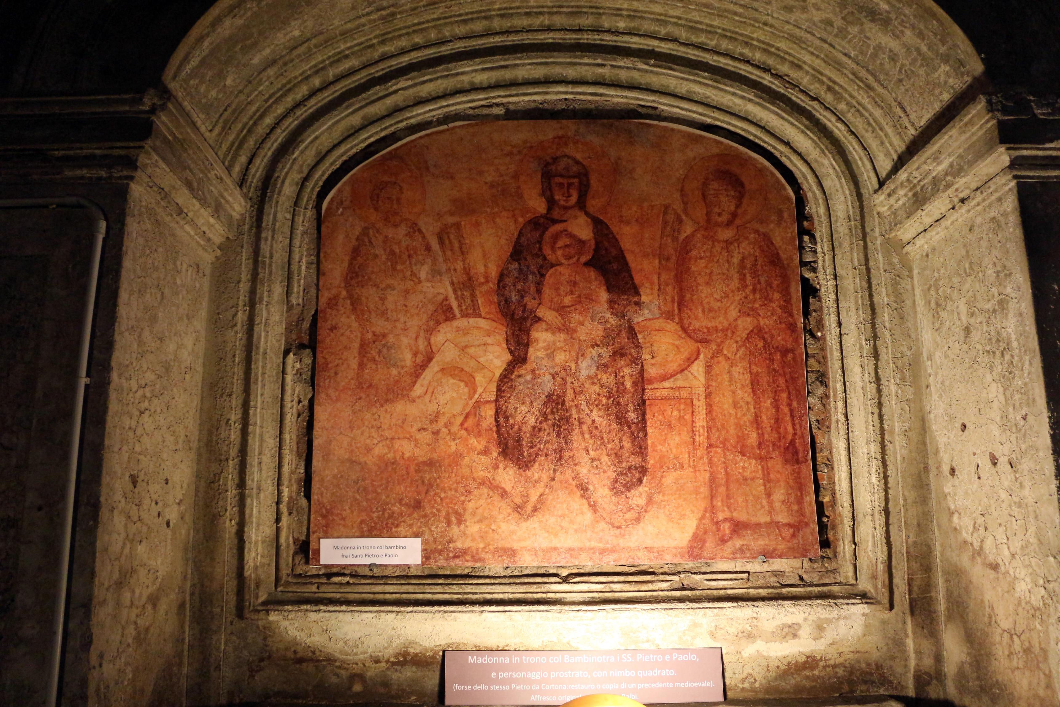 Santa Maria in Via Lata (Rome)